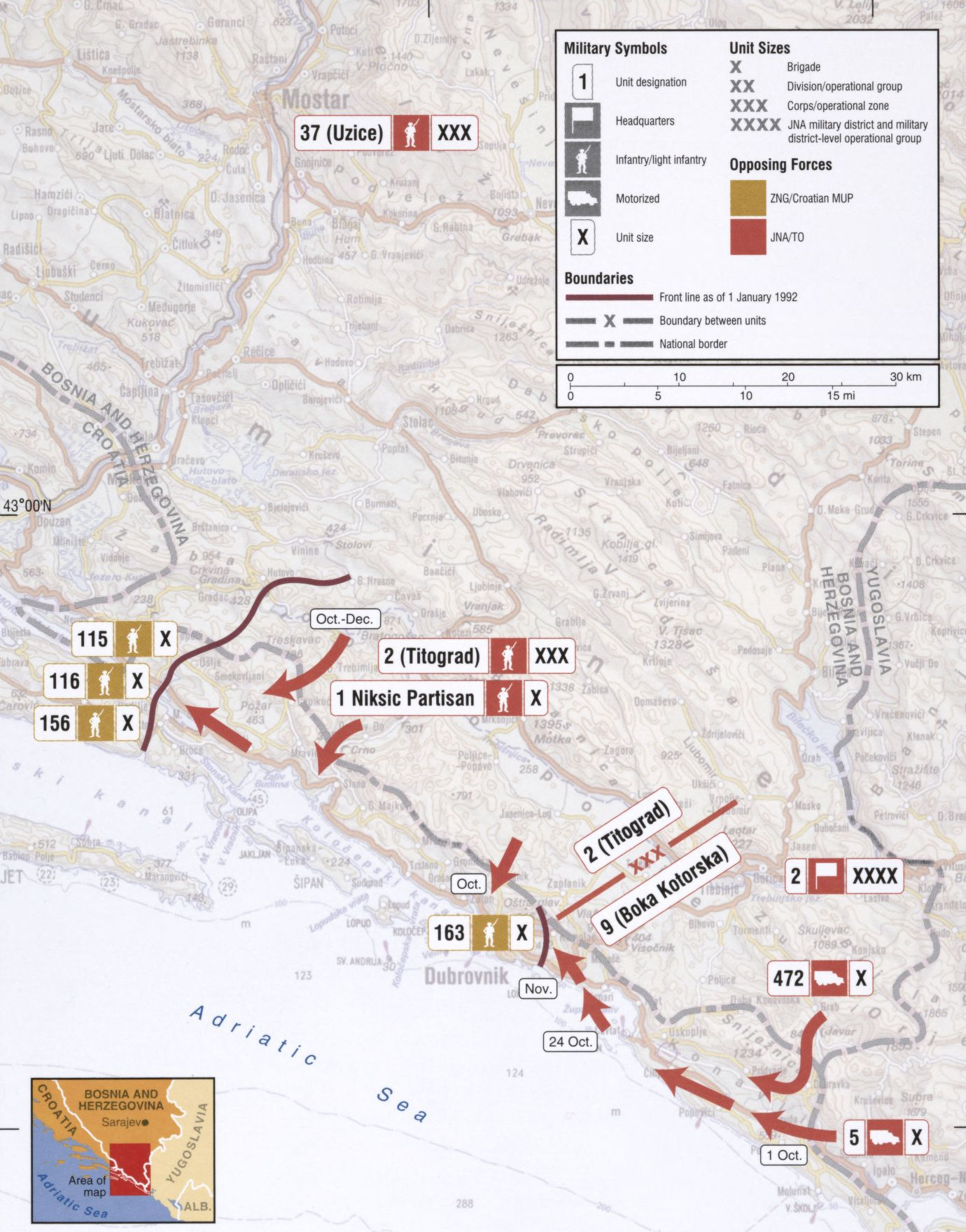 Map of Yugoslav People's Army offensive around Dubrovnik, Croatia October 1991 - April 1992. Balkan Battlegrounds Map 16